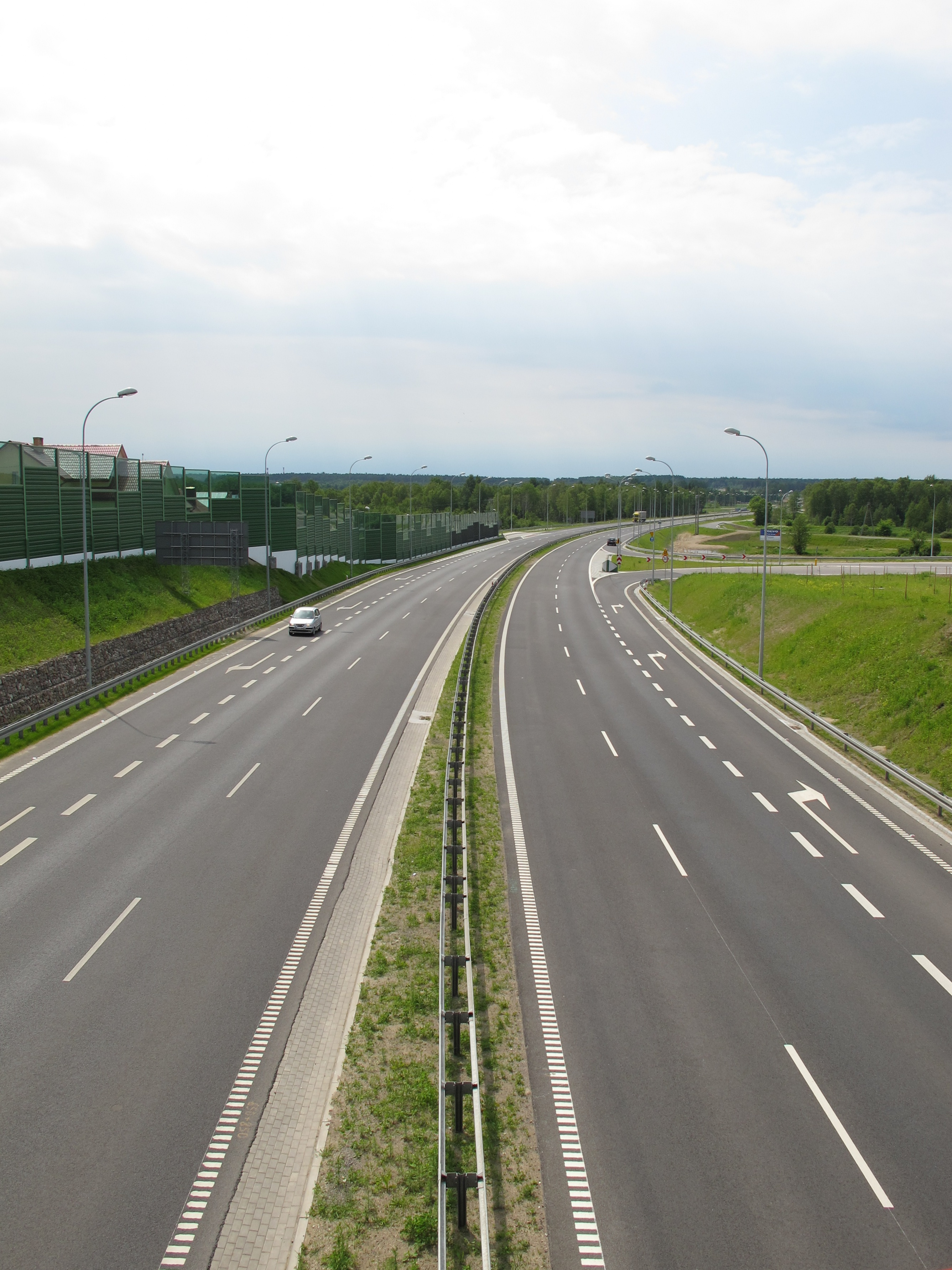 View on DK8 from road bridge between village Juorwce (gmina Wasilków, podlaskie, Poland) and Wasilków as a part of national road 8 Jurowce interchange